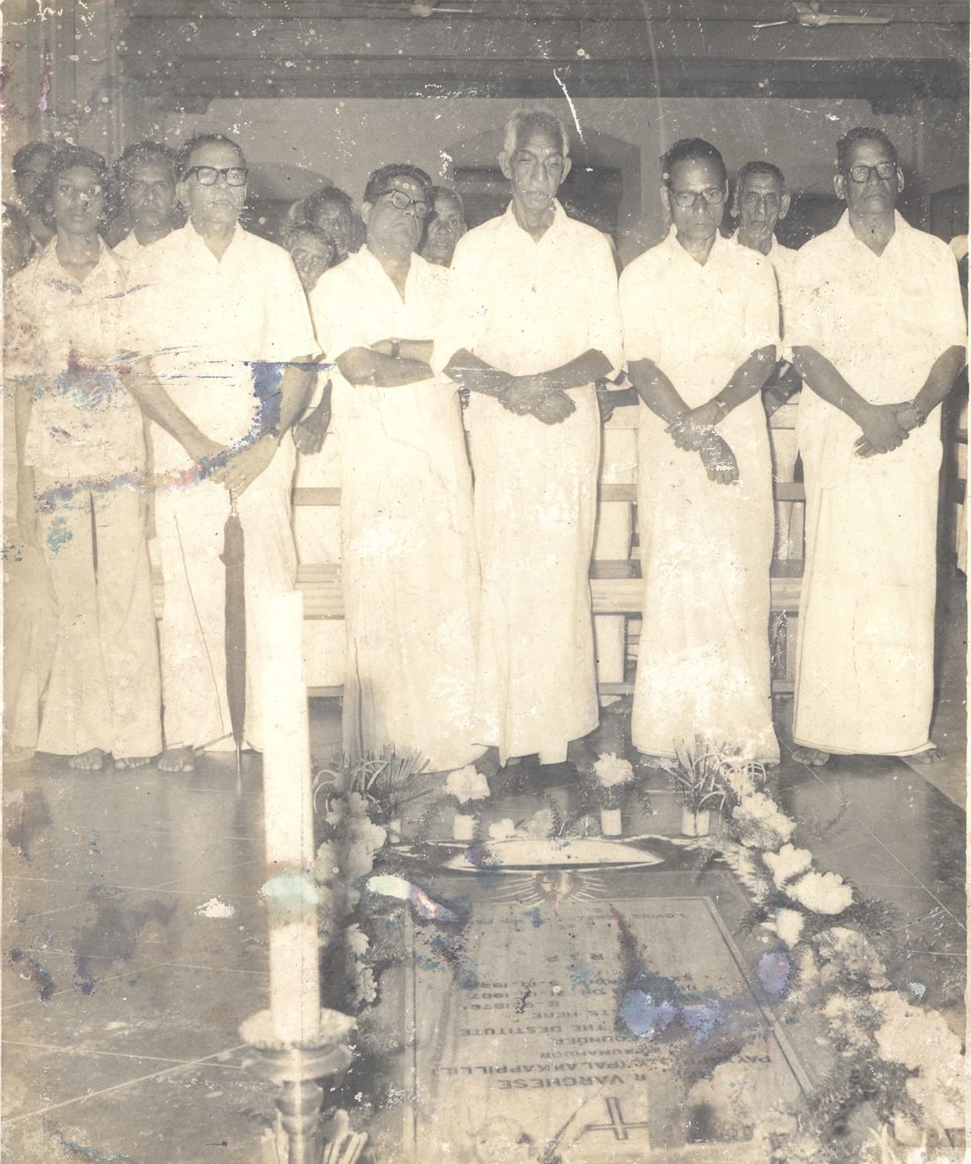 Elder members of the Payyappilly Palakkappilly family namely Payyappilly Palakkappilly Kunju, Payyappilly Palakkappilly Kochousep, Payyappilly Palakkappilly Kurian, Payyappilly Palakkappilly Mathai and Payyappilly Palakkappilly Lonan at the tomb of Mar Varghese Payyappilly Palakkappilly during his 50th Dukrana on 5 October 1979.